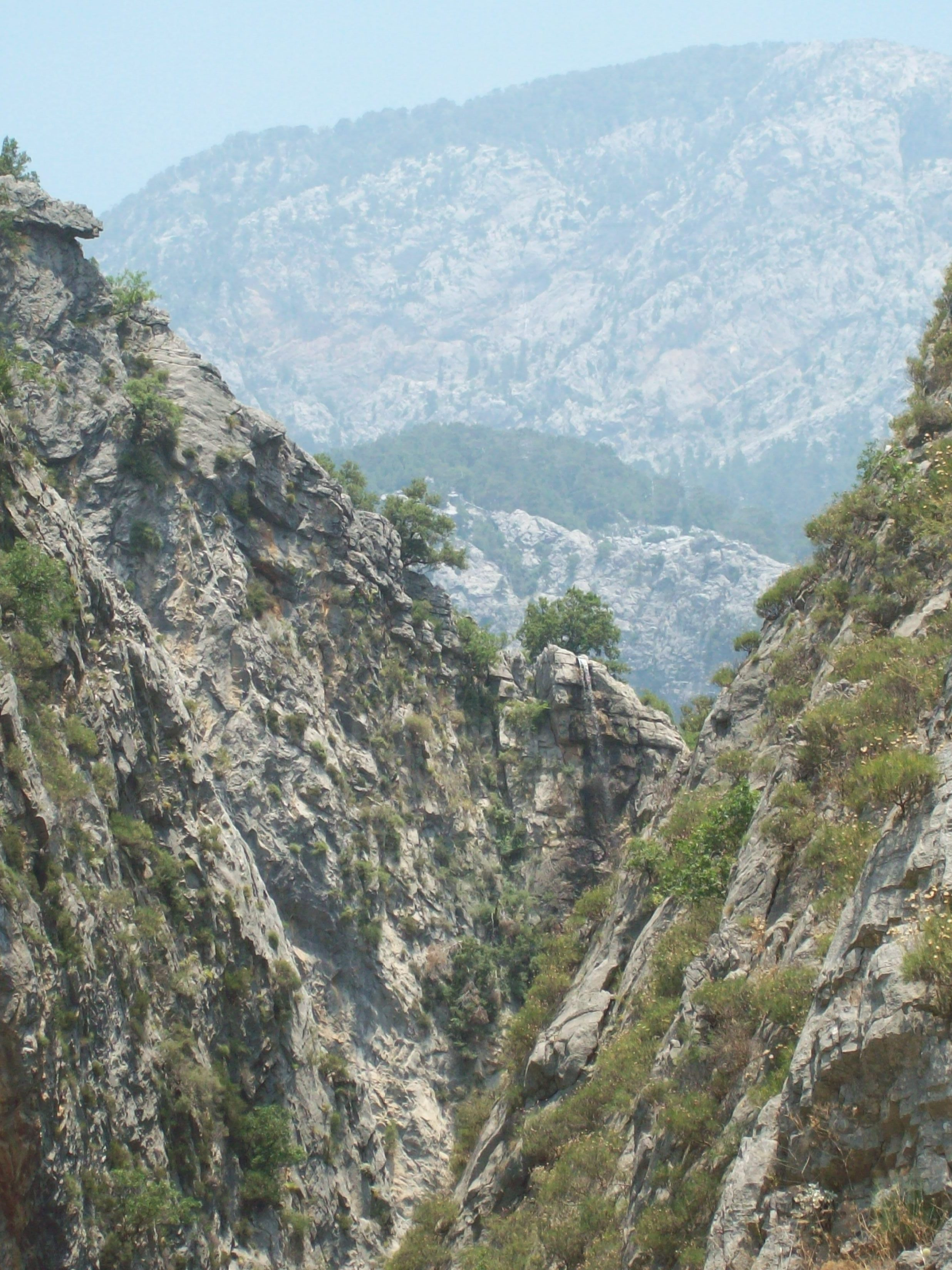 Sapadere Canyon